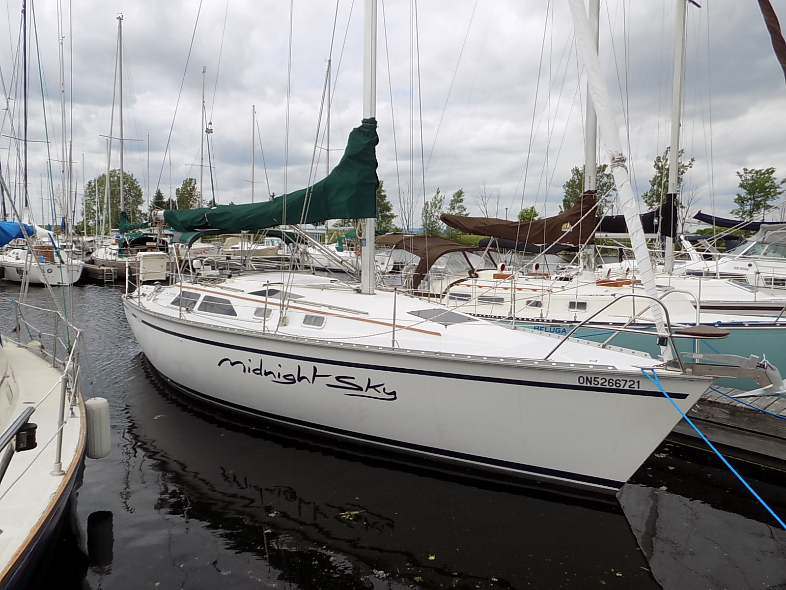 A Hunter 35.5 Legend sailboat Midnight Sky.